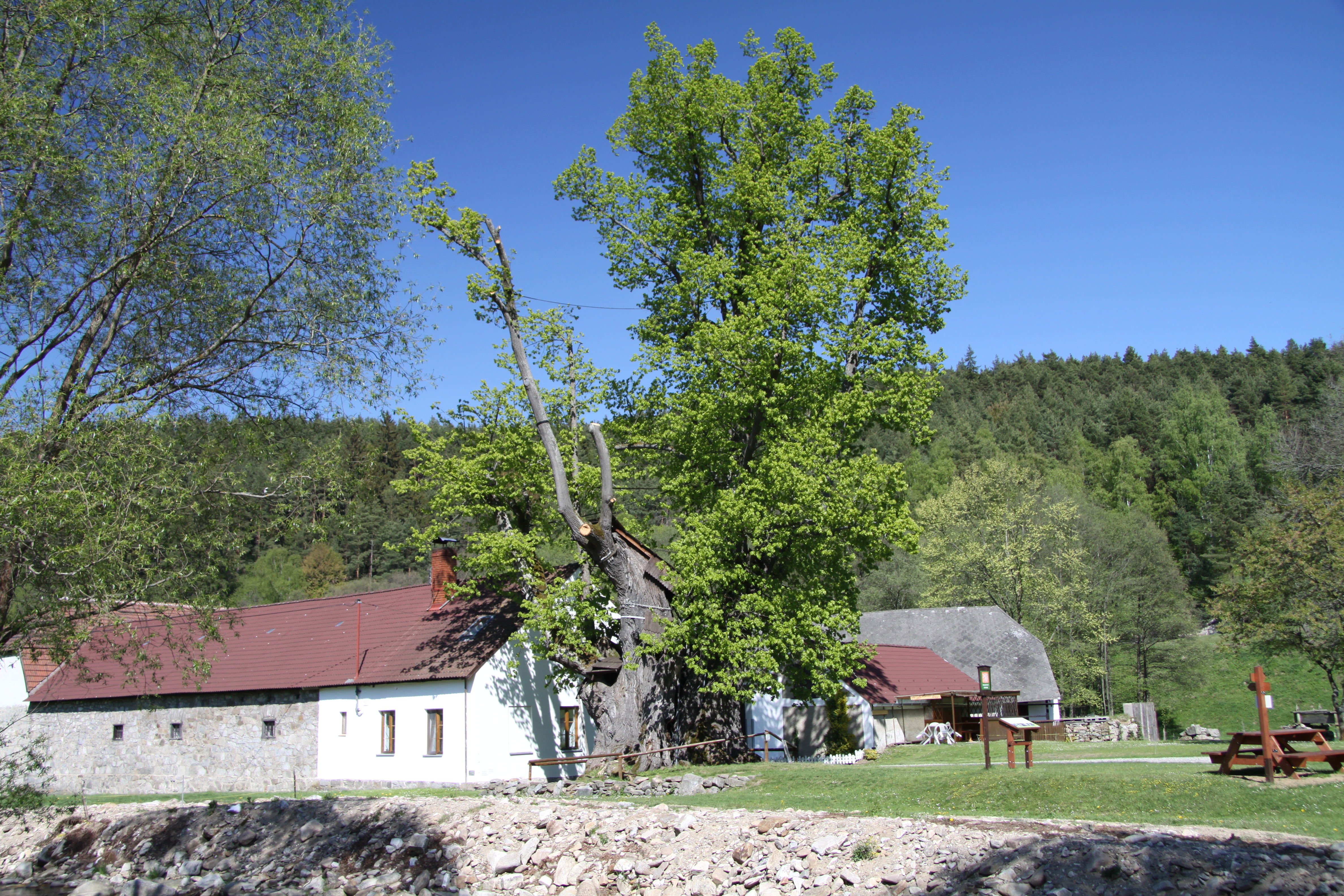 Famous tree called "Sudslavická lípa" in Sudslavice village near Vimperk, Prachatice District, Czech Republic